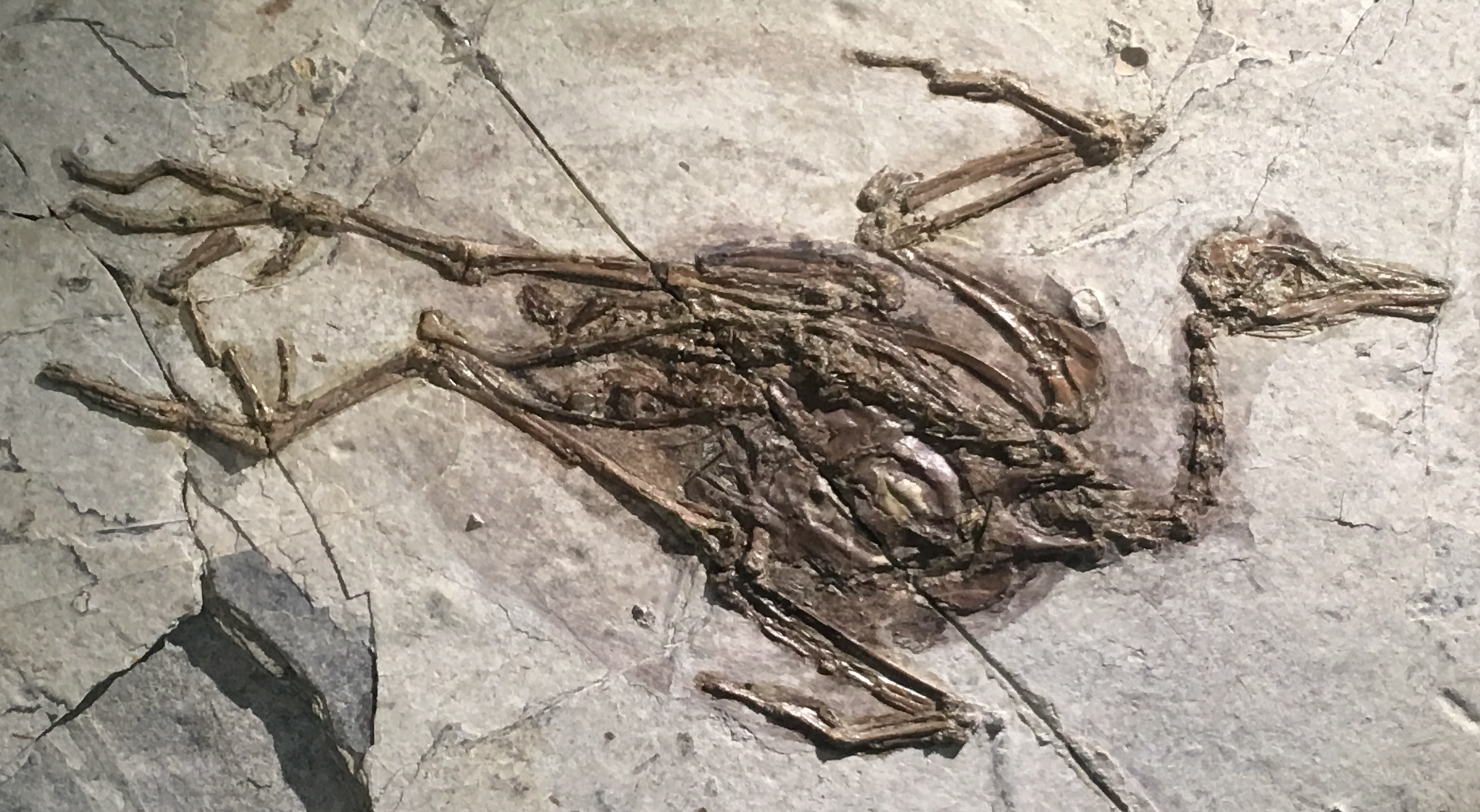 Fossil specimen in the Collections of the Beijing Museum of Natural History